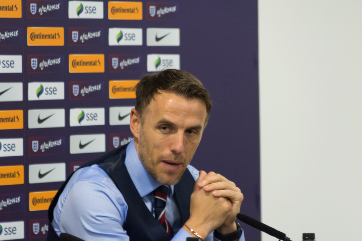 Phil Neville after the game vs Australia on 9 October 2018